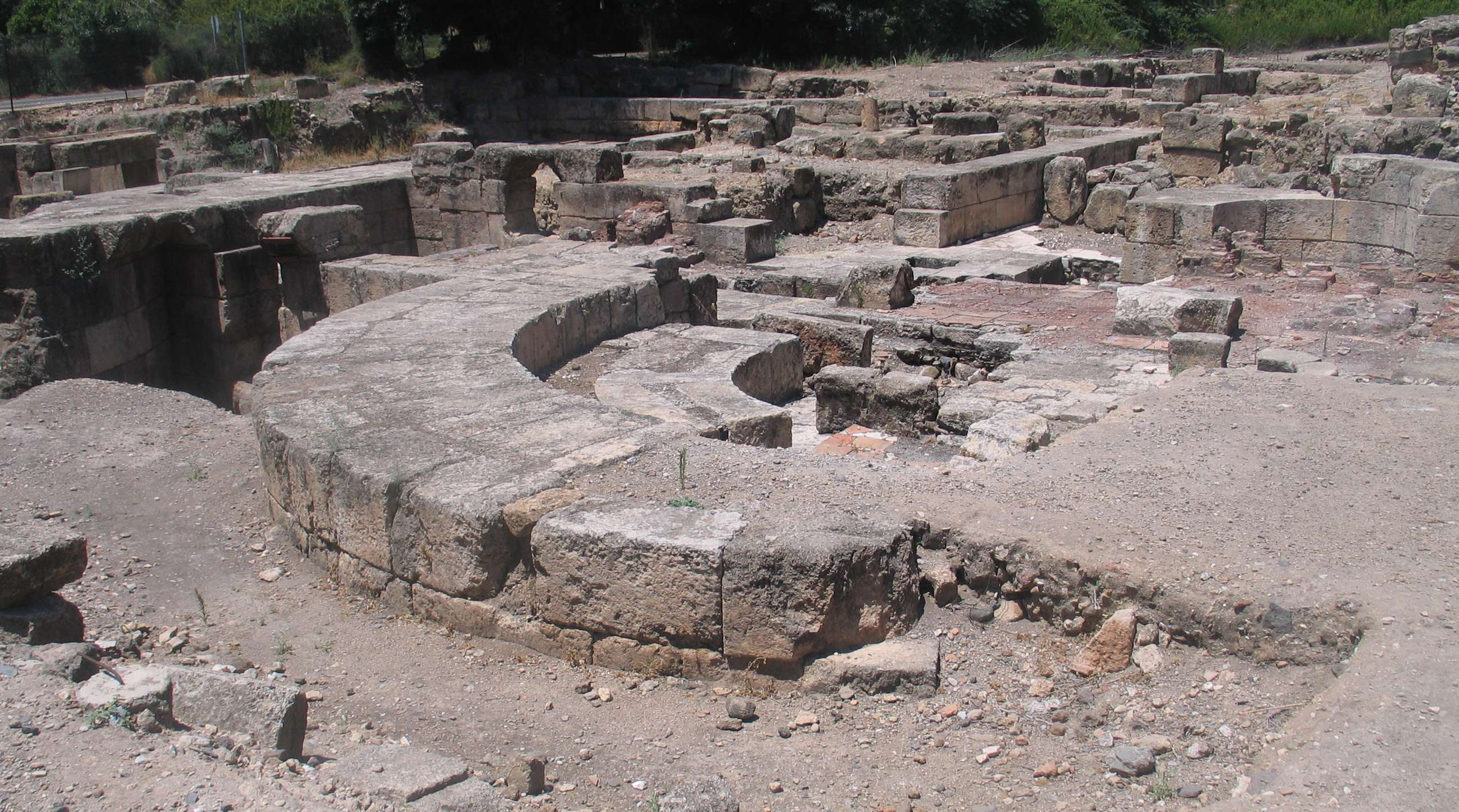 Banias national park, Israel. Agrippa's palace.